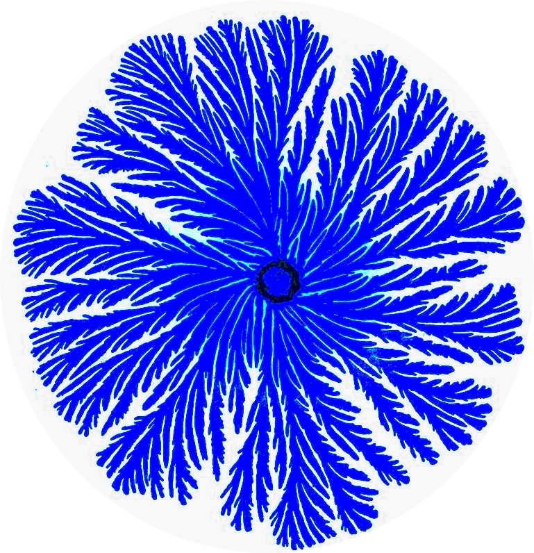 A colony generated by the Branching (Tip splitting) morphotype bacteria of P. dendritiformis. The image was taken in Prof. Ben-Jacob's lab, Tel-Aviv University, Israel.